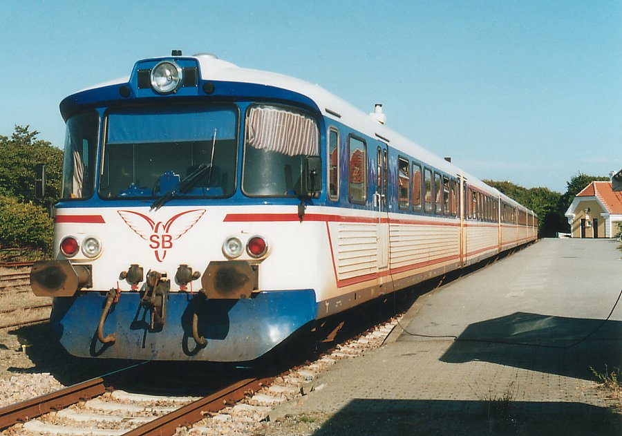 6 unit Lynette DMU in Skagen, Denmark. Skagenbanen has already merged into Nordjyske Jernbaner, but most of the stock still shows the Skagensbanen logos.